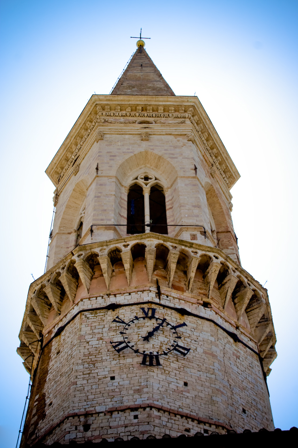 Perugia, Clock Tower of former monastery of San Pietro, now a university seat.